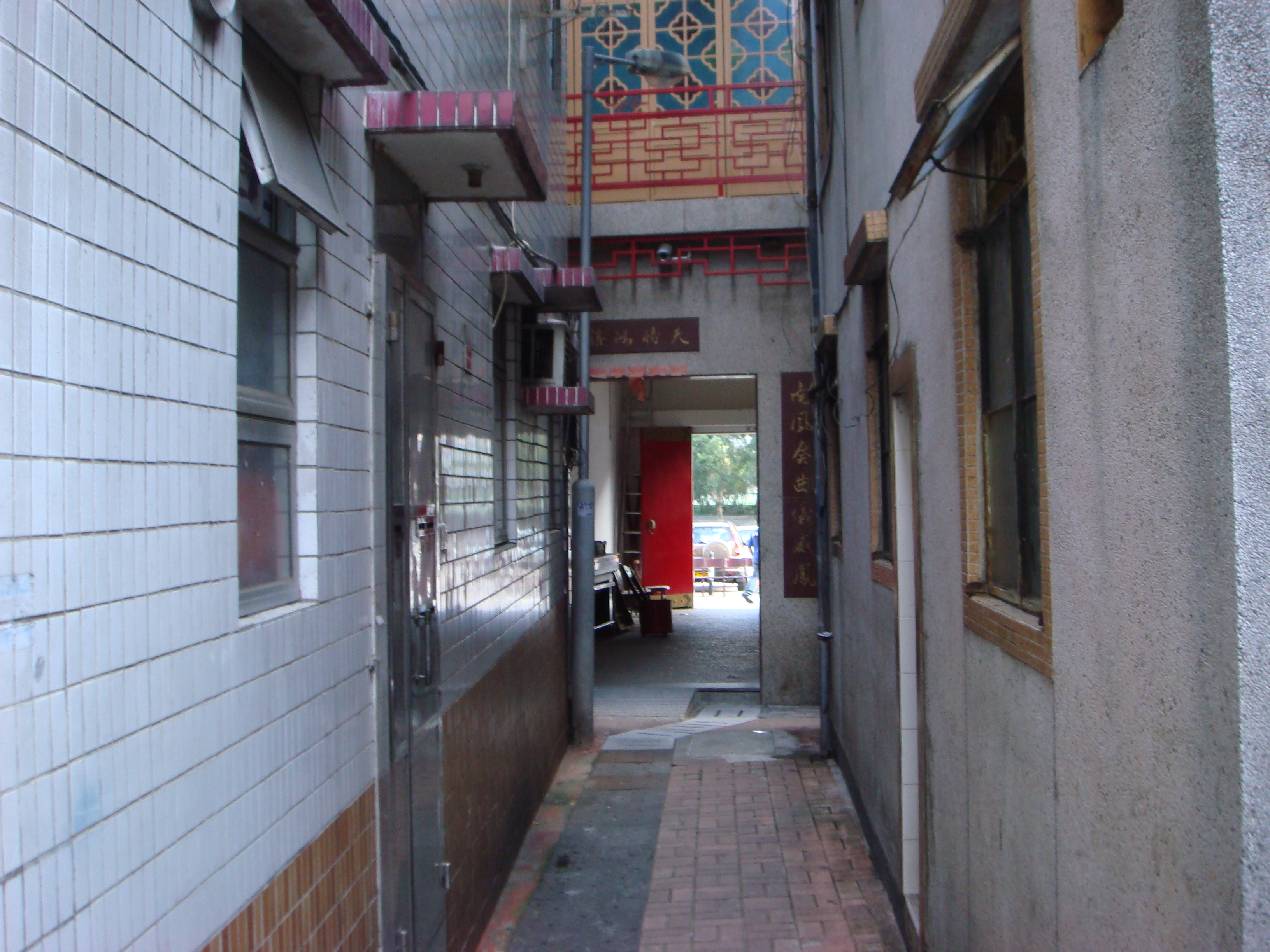 Inside Nam Pin Wai, a walled villages in Yuen Long Kau Hui, Yuen Long District of Hong Kong.